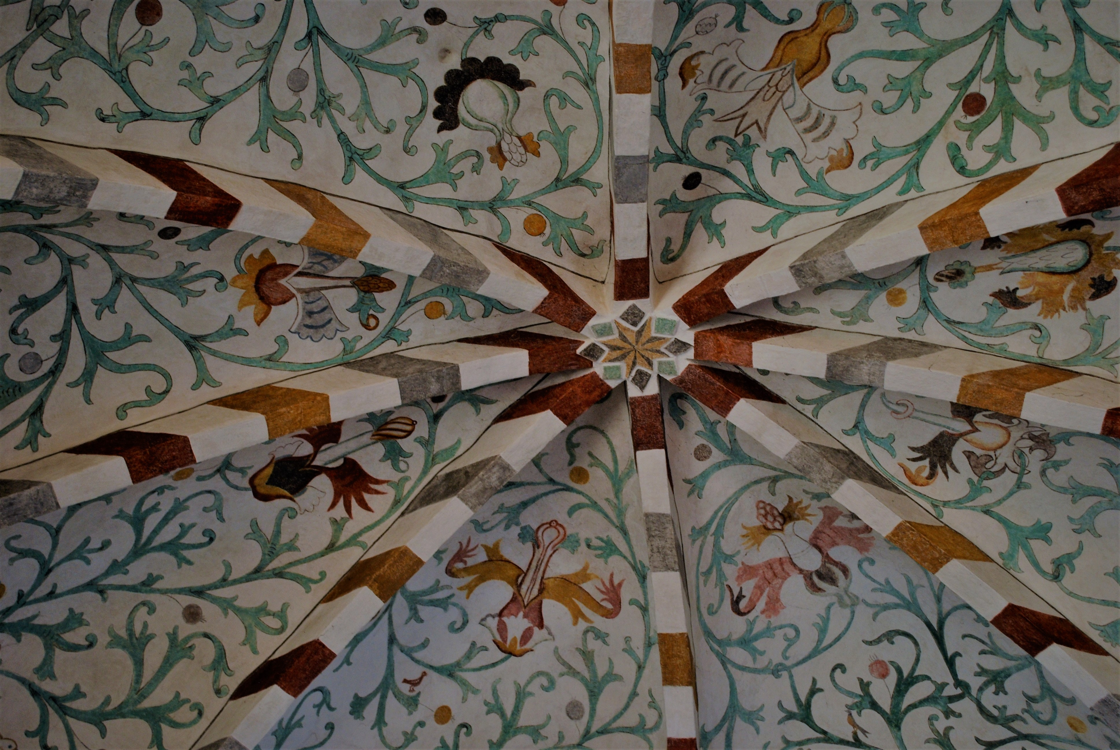 Church frescos in Sottrup Kirke, Denmark. Artist unknown